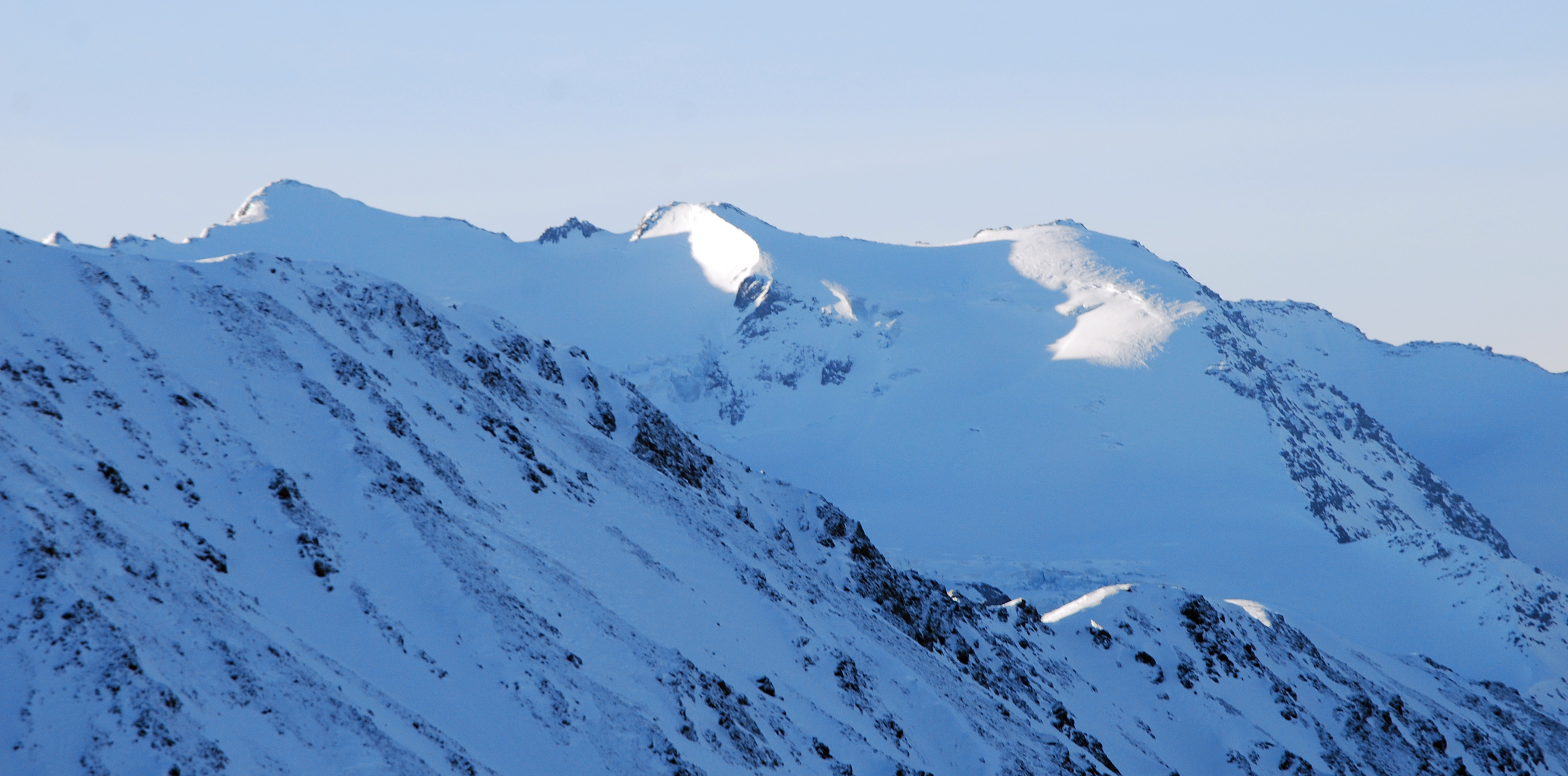 Punta Taviela and Cima di Pejo from NNW